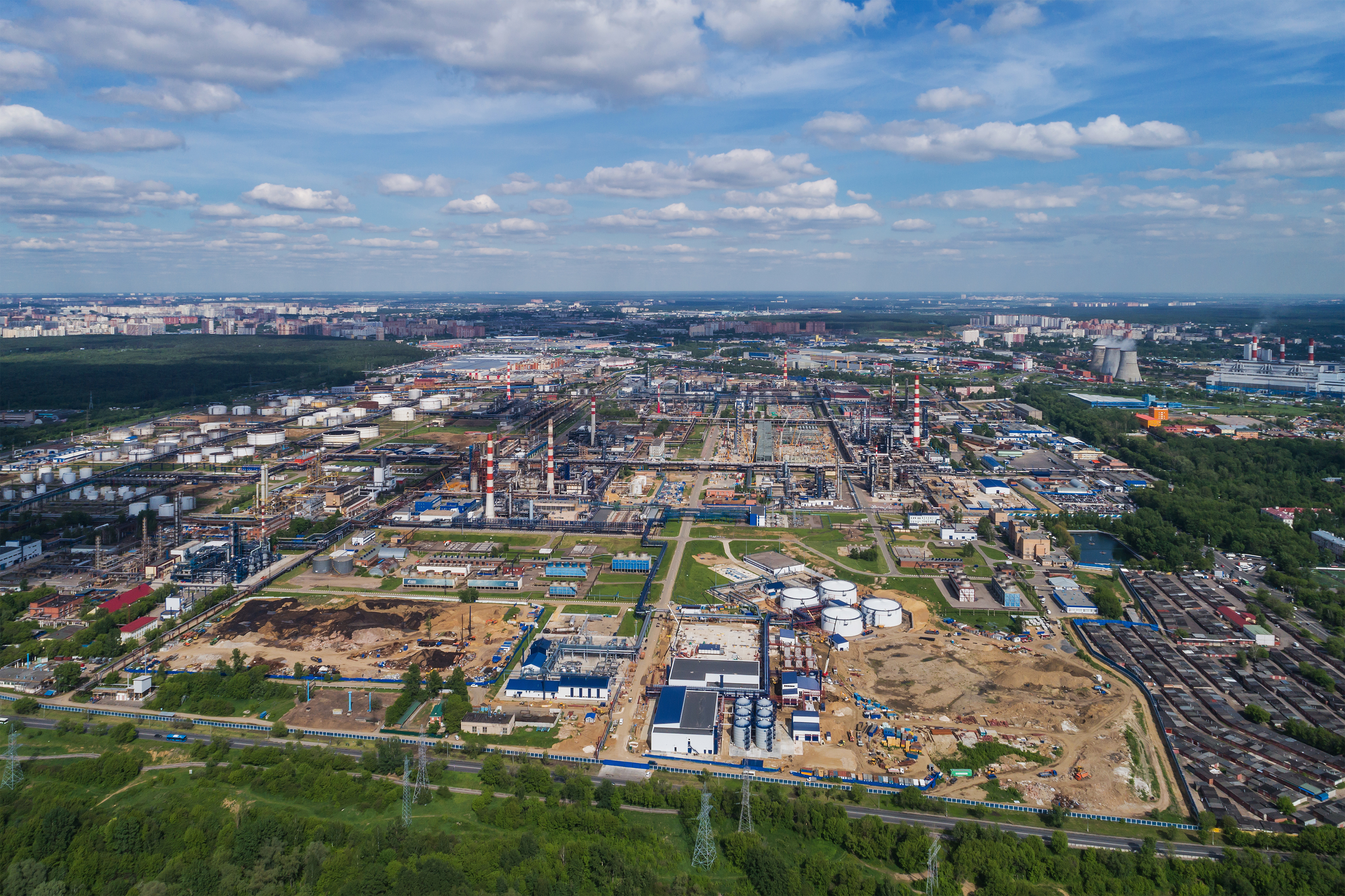 Aerial photo of oil refinery in Kapotnya in Moscow (Russia).